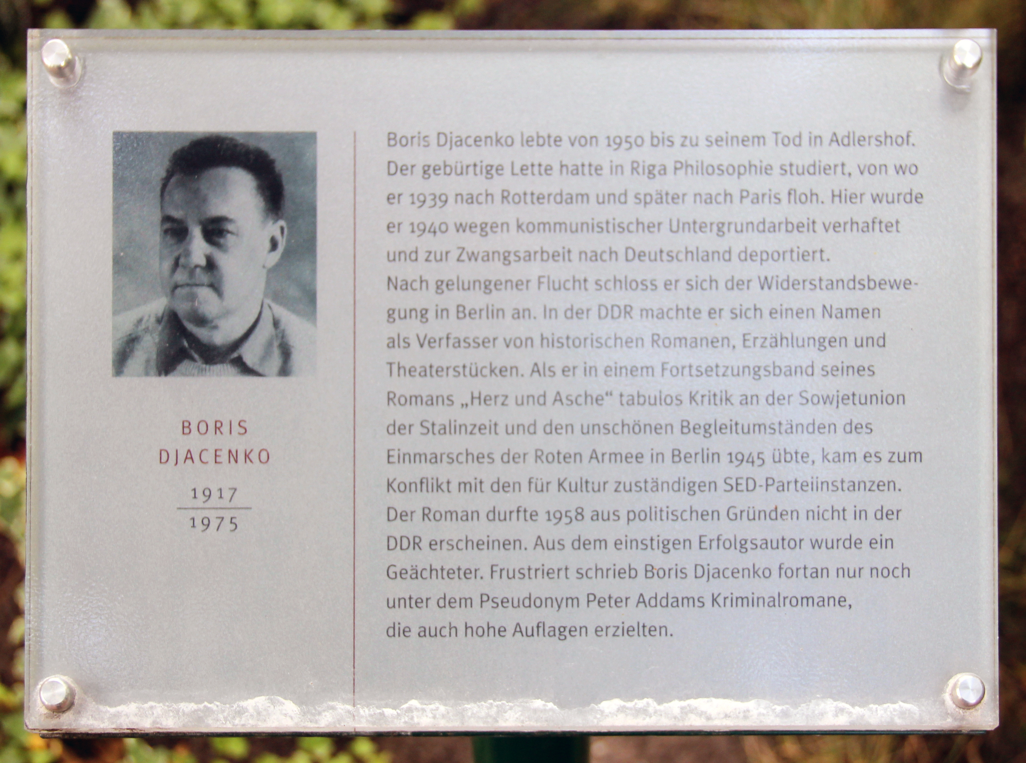 Memorial plaque, Boris Djacenko, Friedlander Straße 156, Berlin-Adlershof, Deutschland